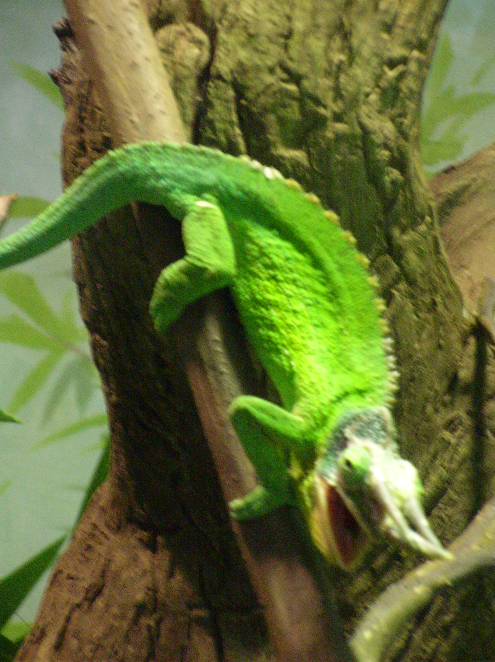 A Jackson's Chameleon (Chamaeleo jacksonii) at the African Hall of the Kimball Natural History Museum at the California Academy of Sciences in San Francisco.